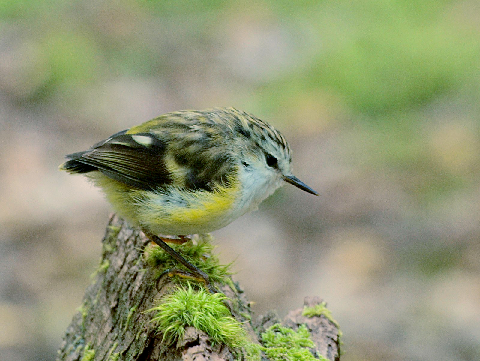 Female South Island Rifleman. We encountered this one on the Lake Sylvan circuit and I was able to get quite close. p3102013t-1600-usm3